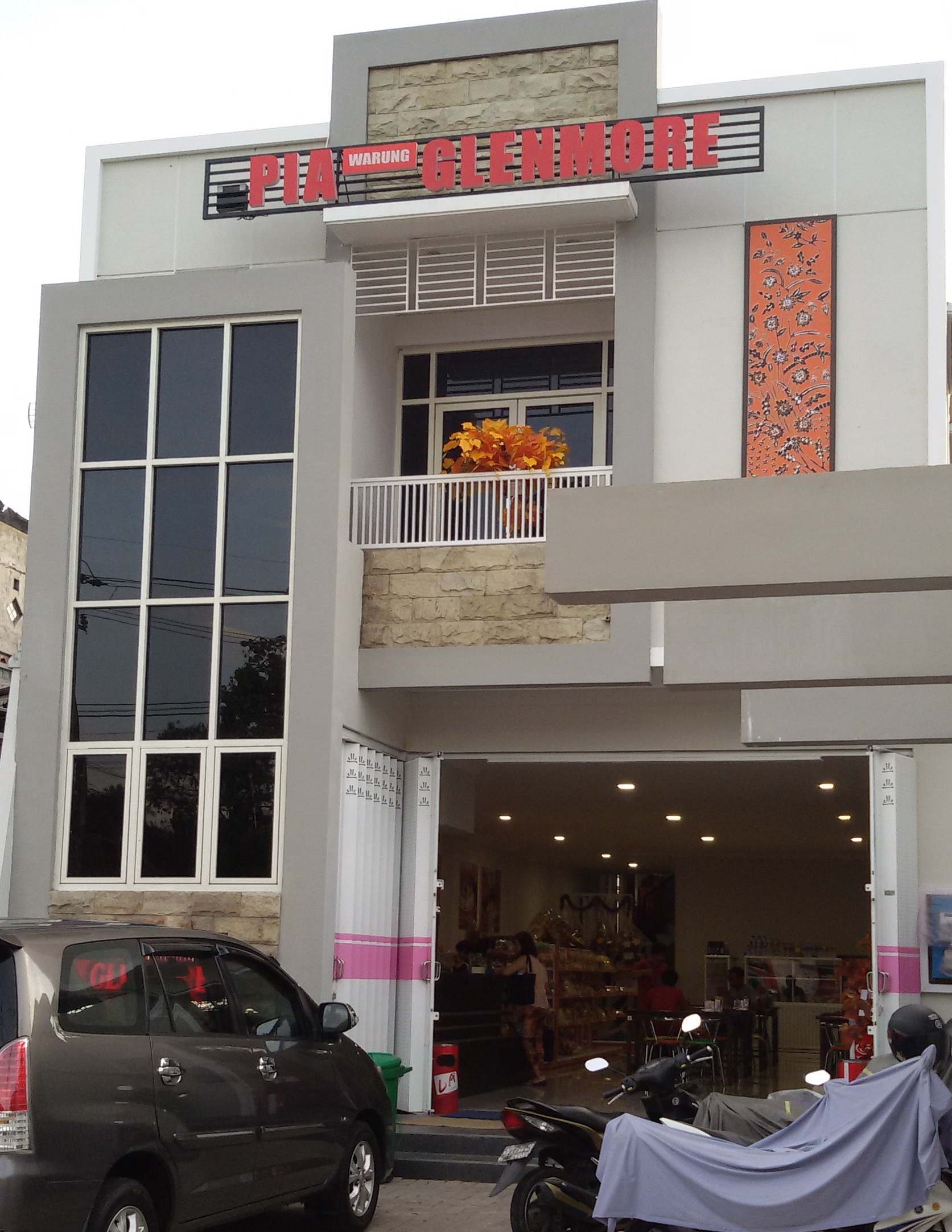 The front side of Pia Pia Warung Glenmore